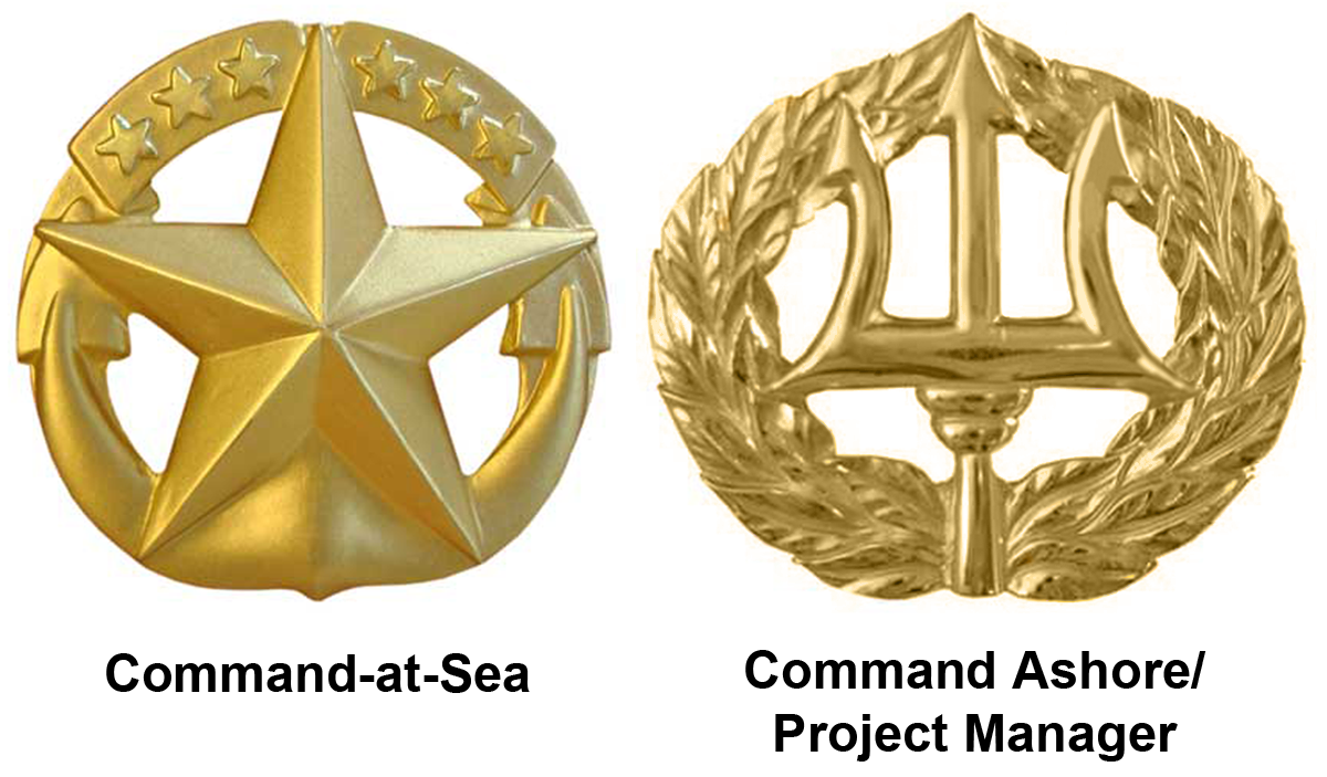 Image of Command insignia used in the US Navy. For use in USN articles concerning awards.